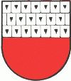 Coat of arms of Seckau, Styria